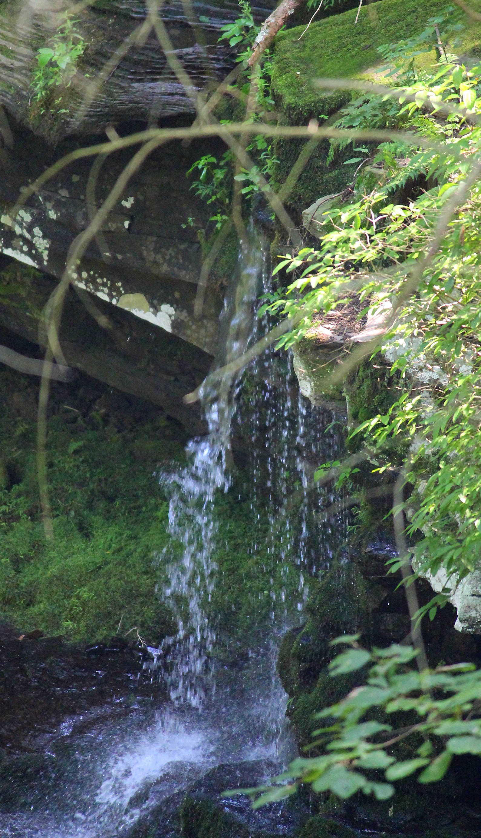 Moneypenny Falls on Moneypenny Creek, in Wyoming County, Pennsylvania.